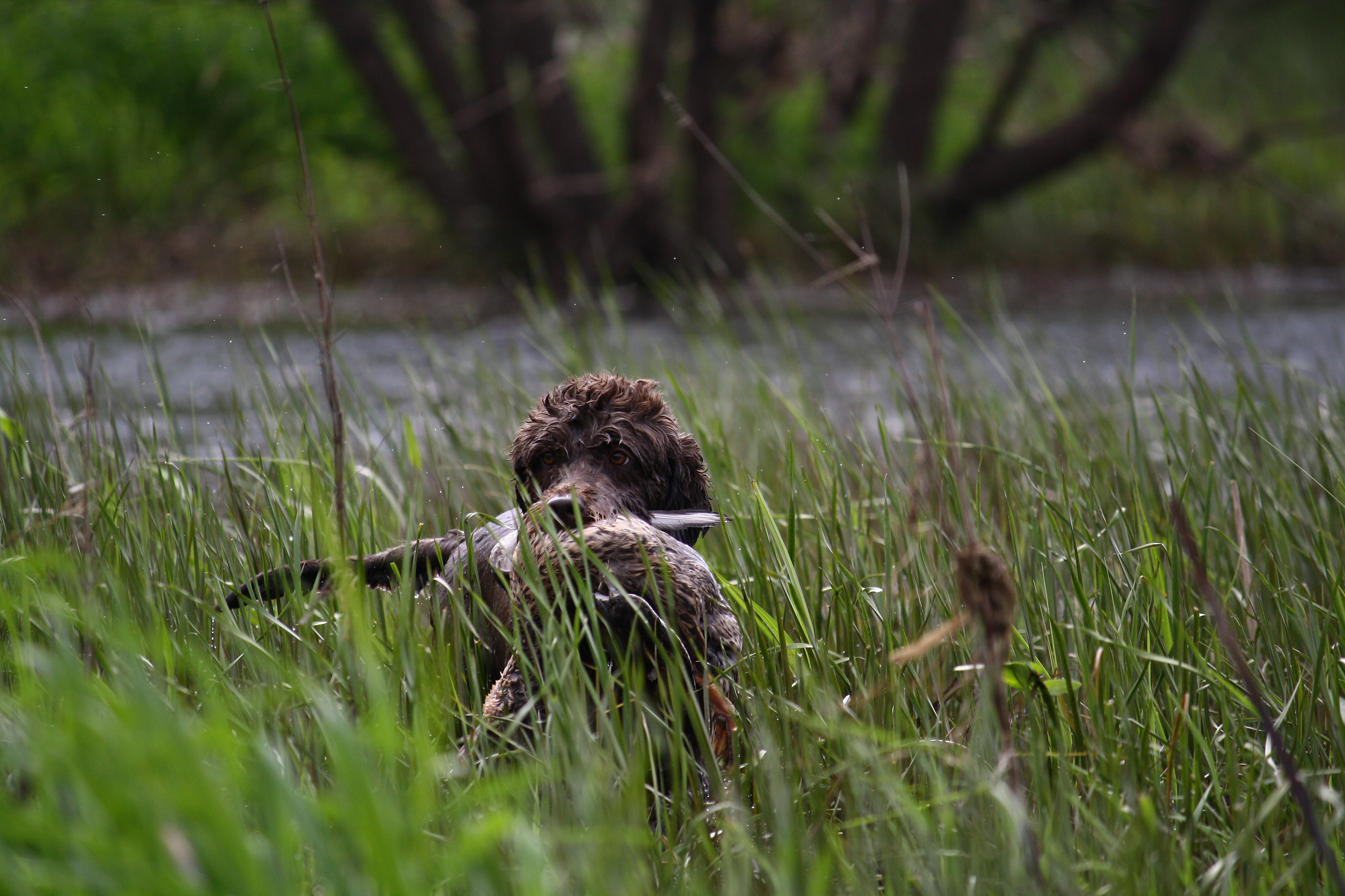 BIBICHE di Barbochos Reiau de Prouvenco